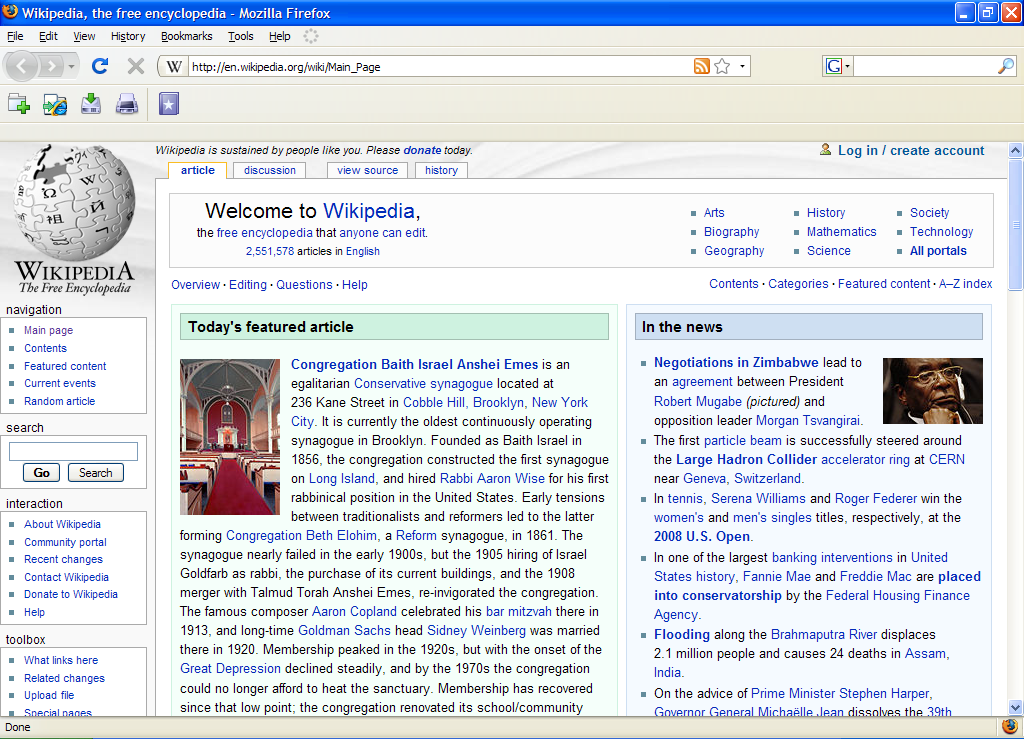 Mozilla Firefox version 3.01, running on Microsoft Windows XP displaying the English Wikipedia Main Page.